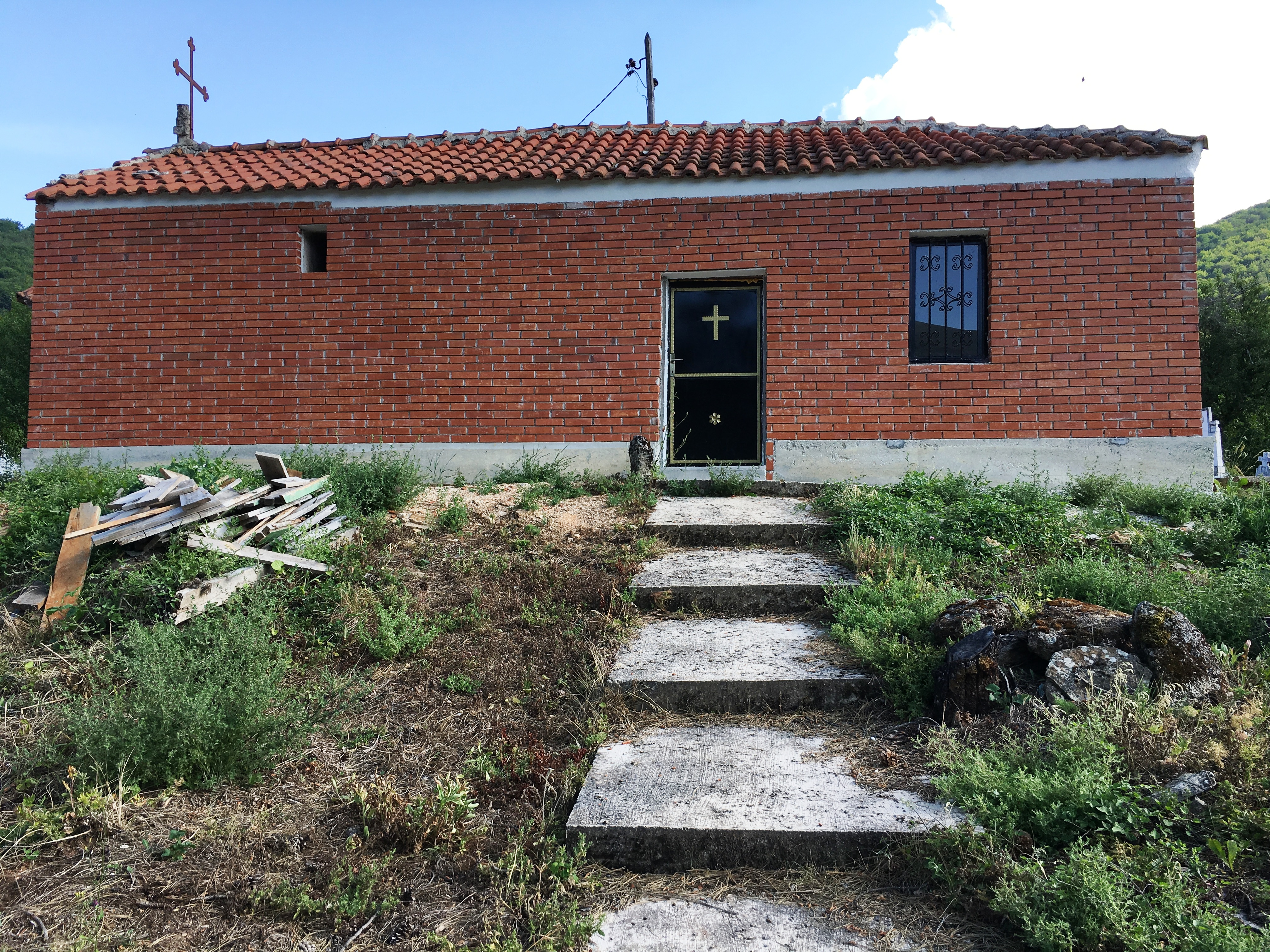 St. Michael the Archangel Church in the village of Volče